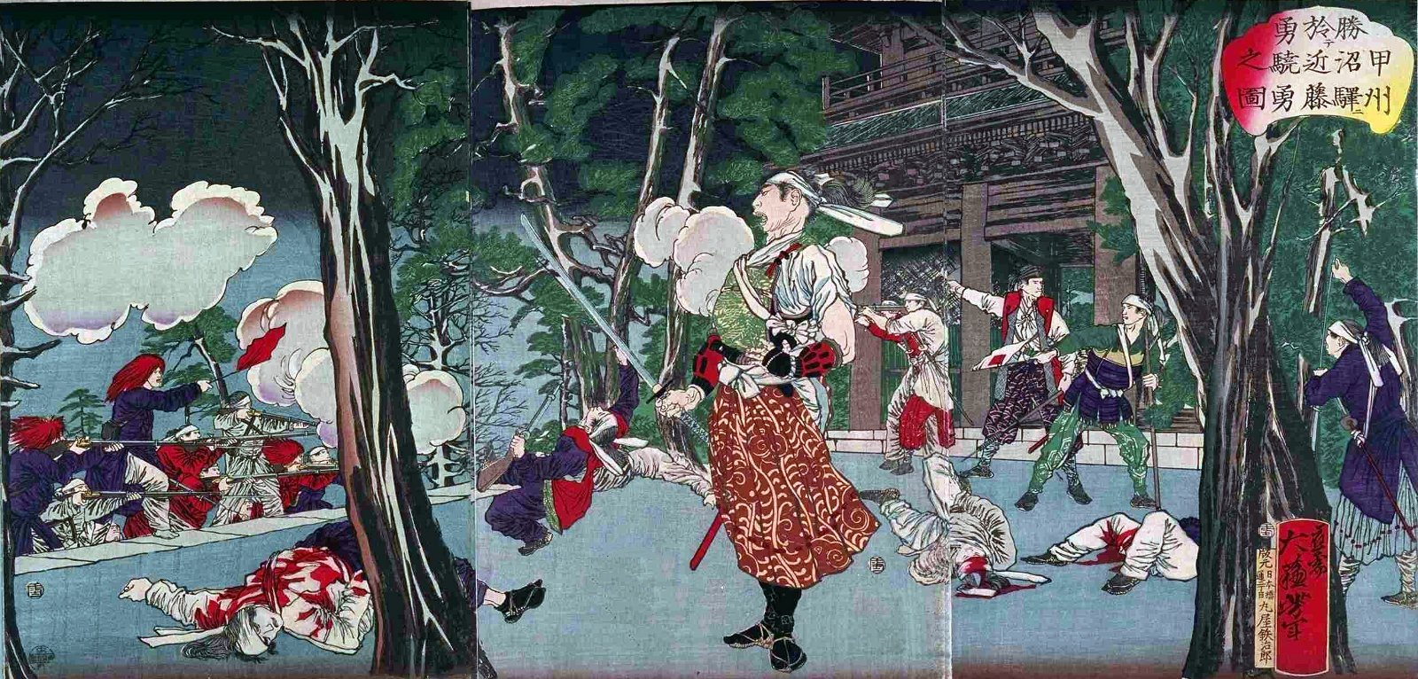 Kondō Isami, leader of the pro-shogunate Shinsengumi, facing soldiers from Tosa (distinctive "Red bear" (赤熊 Shaguma)) wigs of the officers) at the Battle of Kōshū-Katsunuma. It was a battle between pro-Imperial and Tokugawa shogunate forces during the Boshin War in Japan. 1880 woodblock print in the Edo-Tokyo Museum.